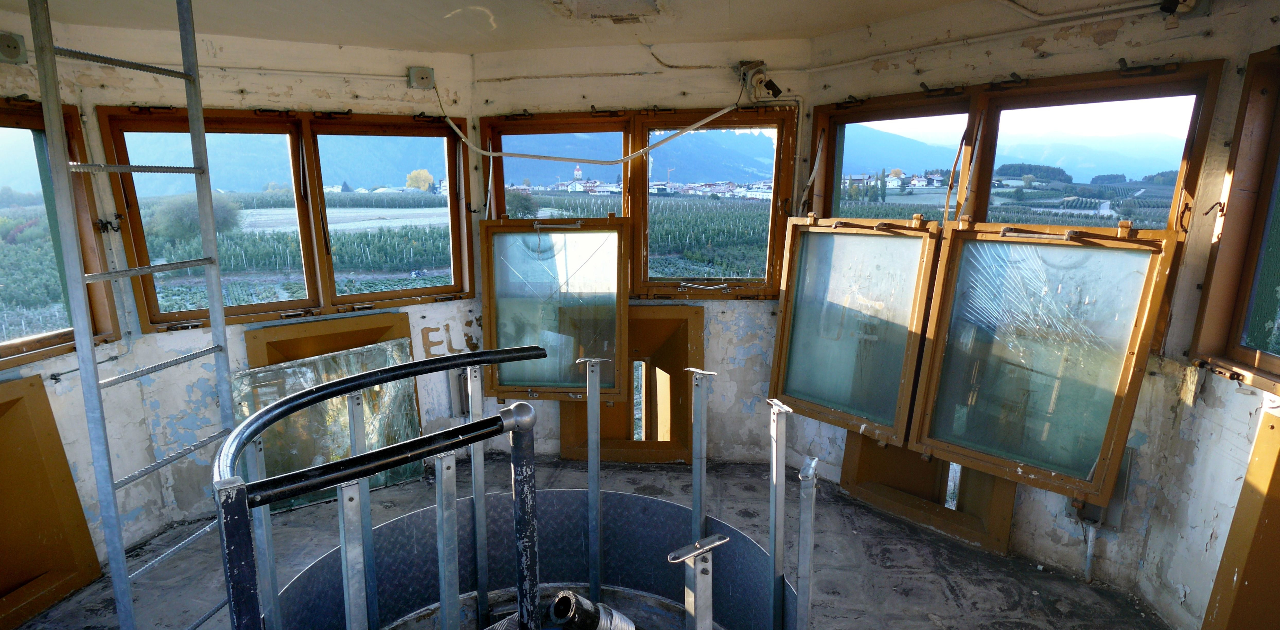 Site Rigel: inside view of the west tower, Brixen, South Tyrol (Italy)